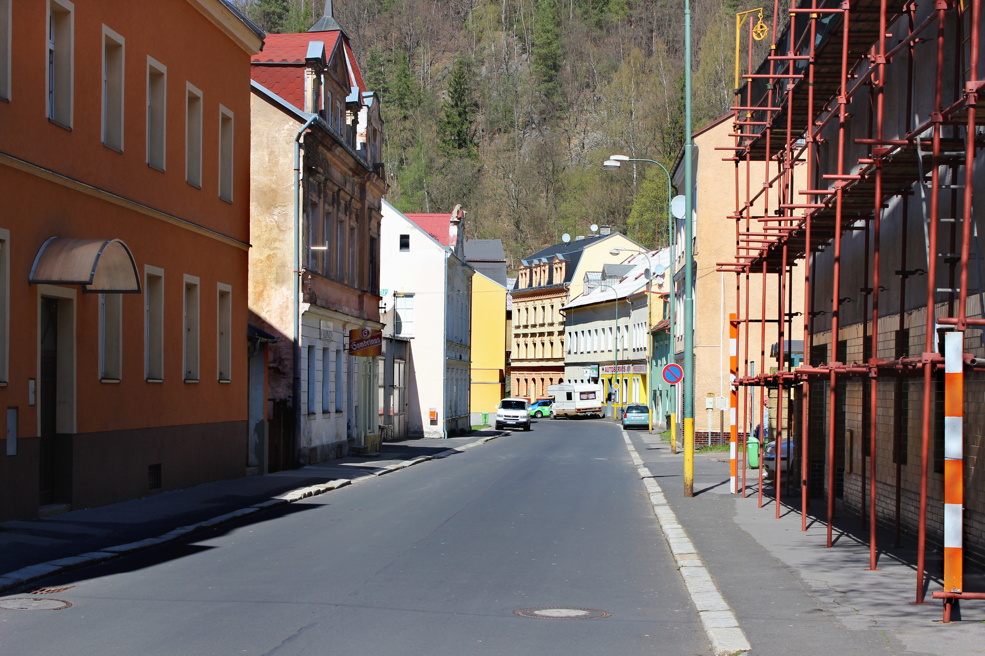 Hamerská street in Březová village, Czech Republic